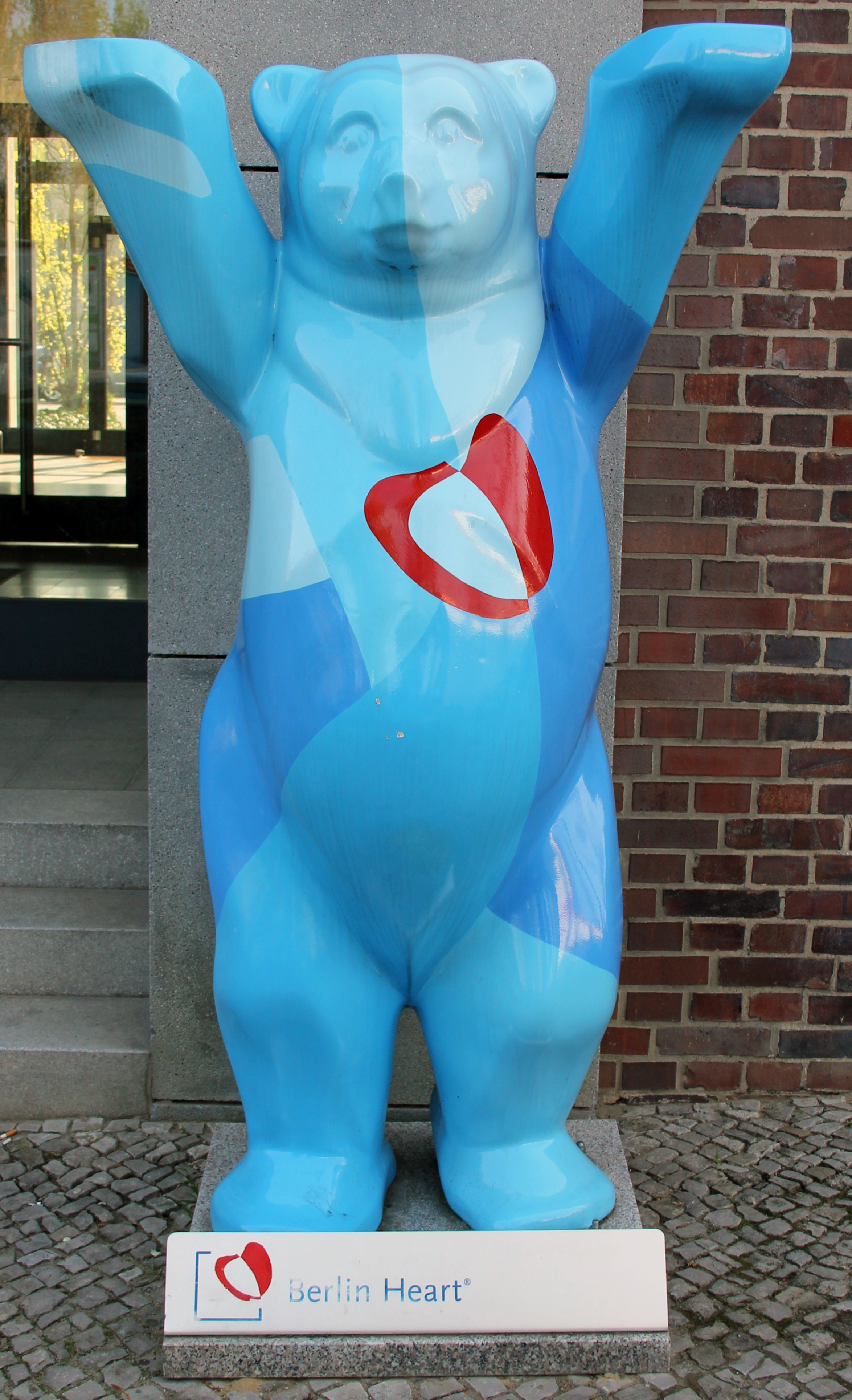 Sculpture, Berlin Heart Bär, Wiesenweg 10, Berlin-Lankwitz, Germany